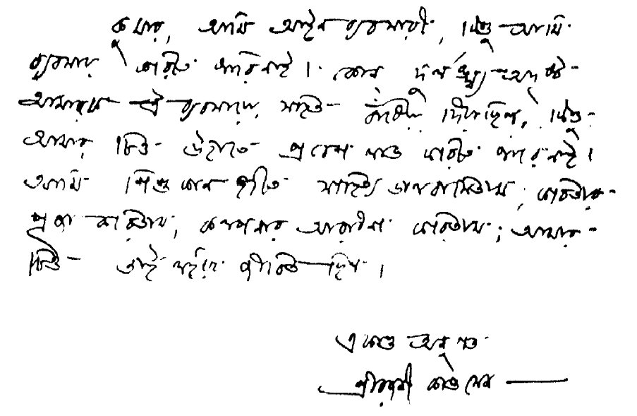 The letter written to Sharat Kumar Ray describing his interests